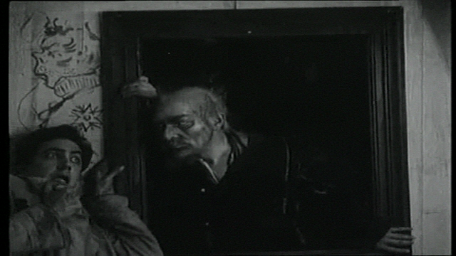 Screen shot from the short movie Портрет Гоголь (Portrait) Direct by (Владисла́в Алекса́ндрович Старе́вич )Władysław Starewicz Country: Russia (Russian Empire) 1915 This short film uses the special effect: Stop trick[1] the film is based on the novel by Nikolai Gogol[2]: The Portrait[3]